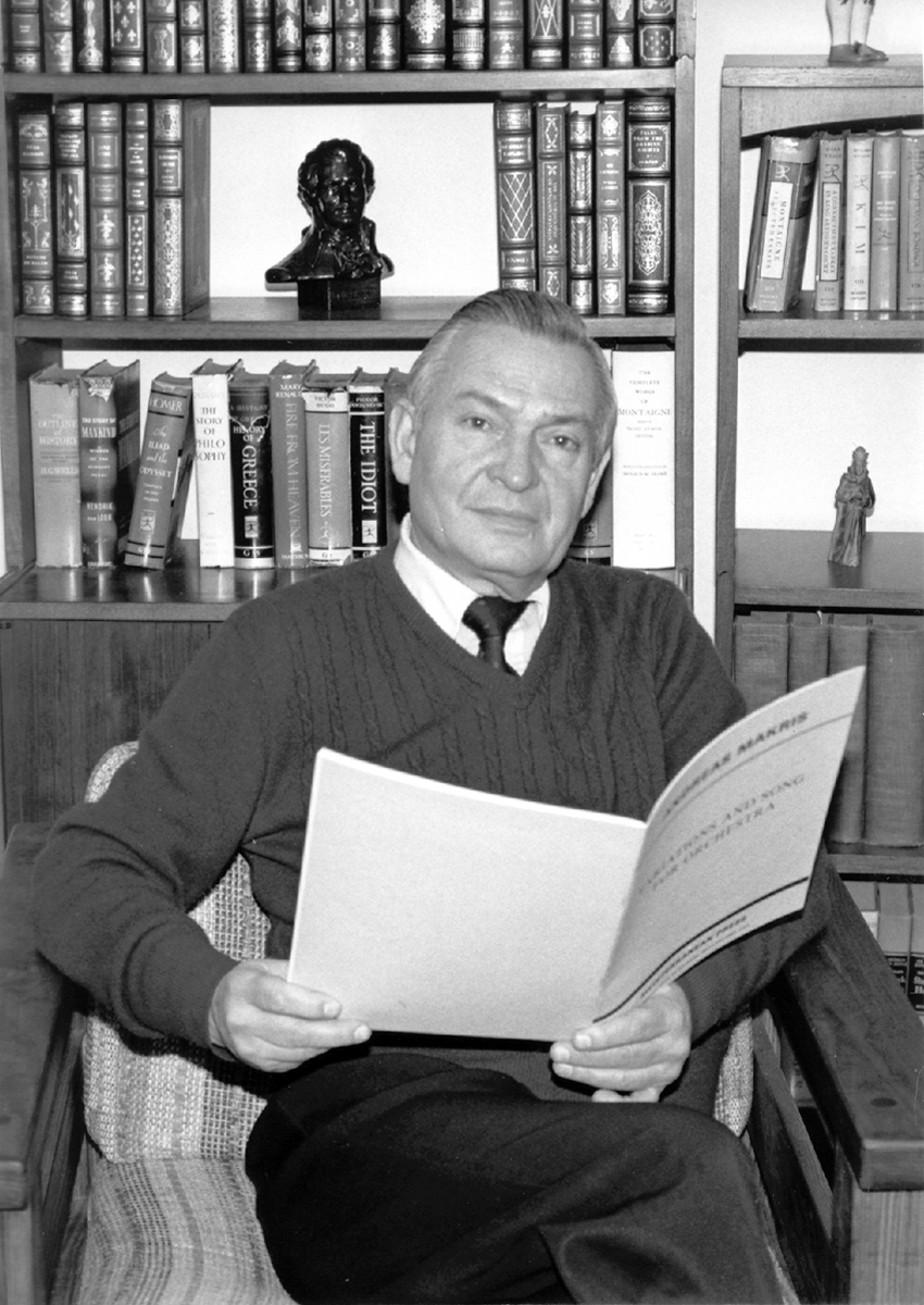 Greek-American composer Andreas Makris (1930–2005) at home, holding a score of one of his compositions. For more information about Andreas Makris, visit